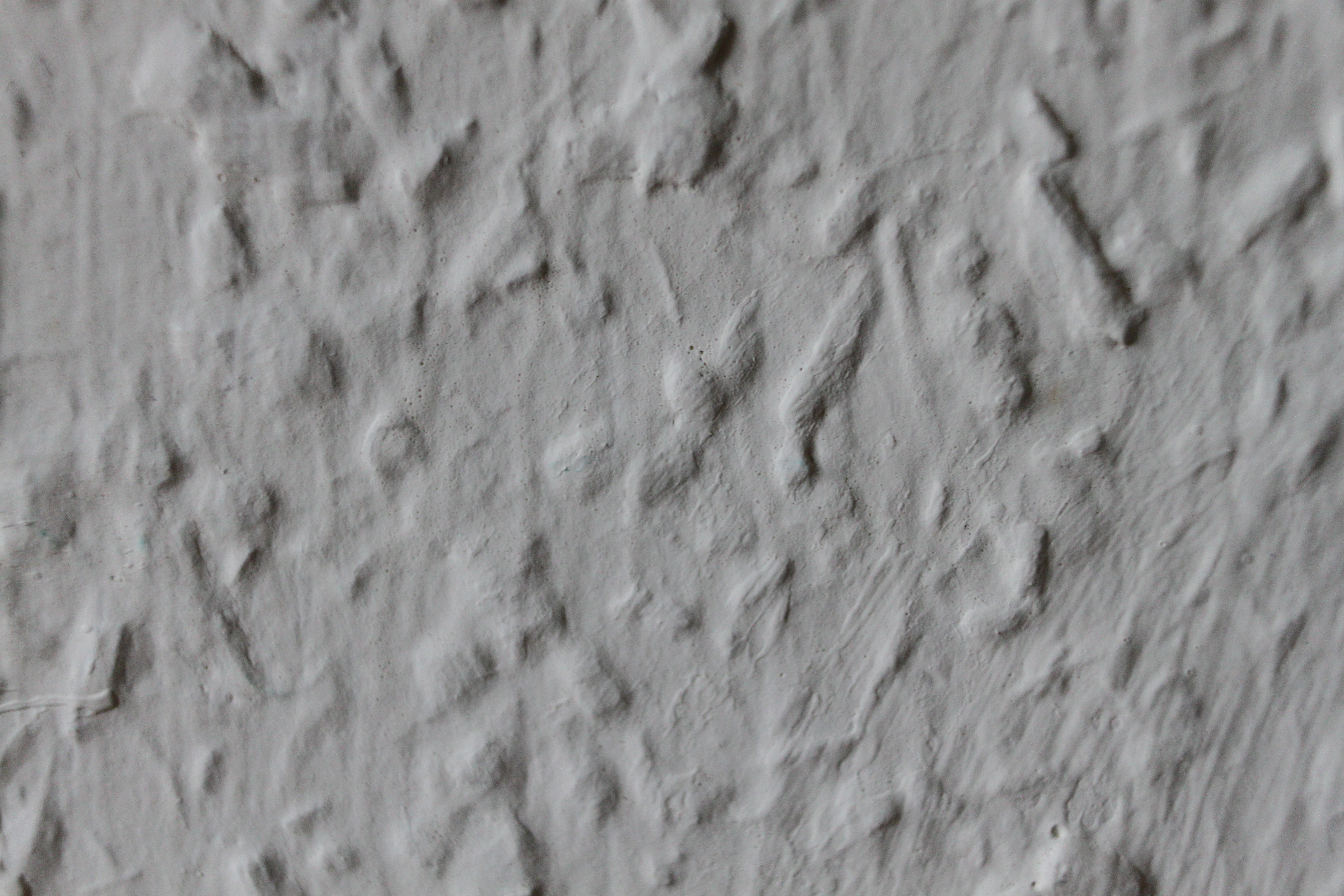 Ingrain wallpaper